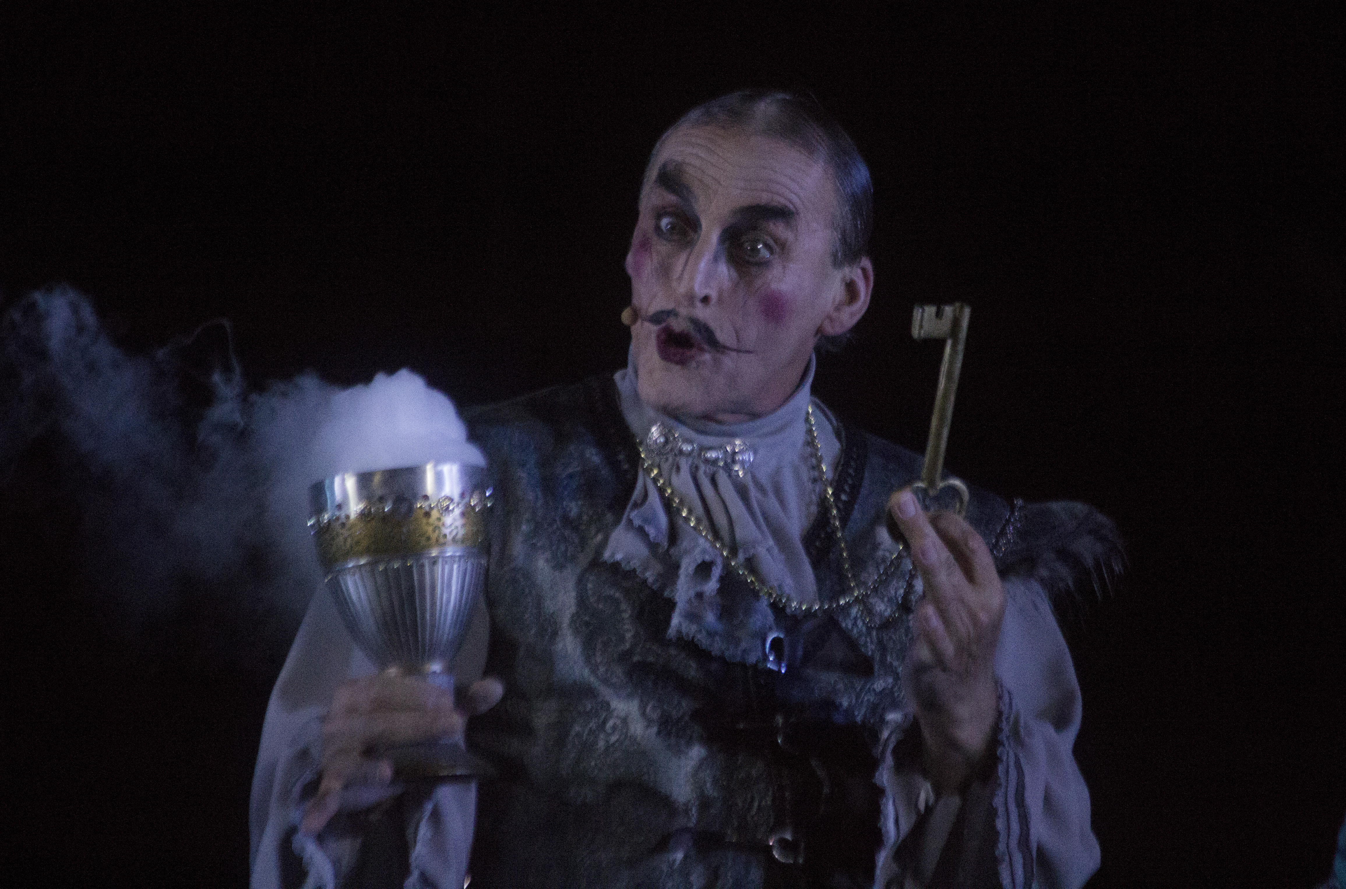 Hans Rønningen as Grisk in Kaptein Sabeltann og Den Forheksede Øya